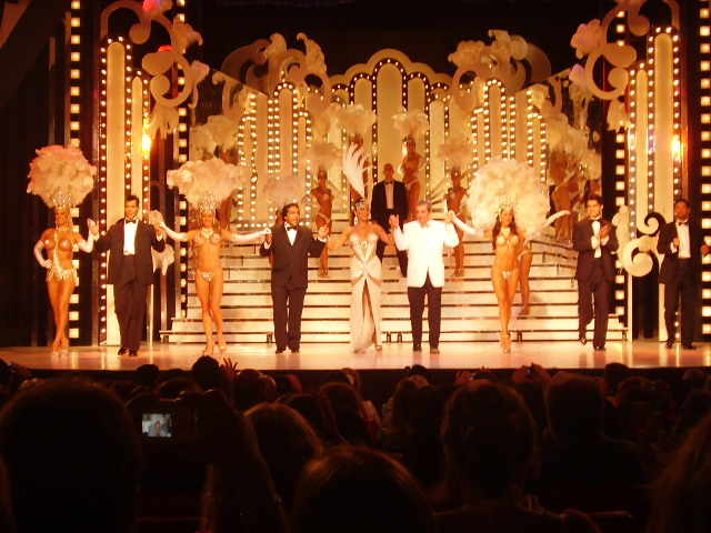 A Revue Show in Cordoba, Argentina